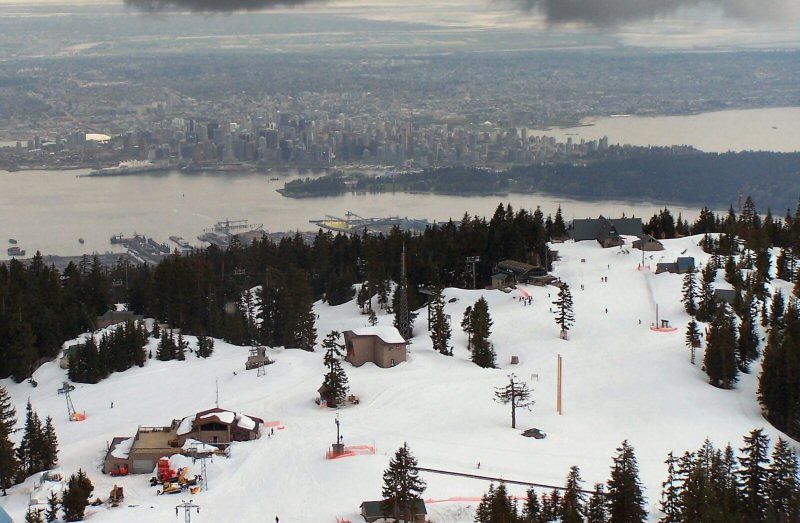 View from the top of the Peak run, Grouse Mountain., North Vancouver.